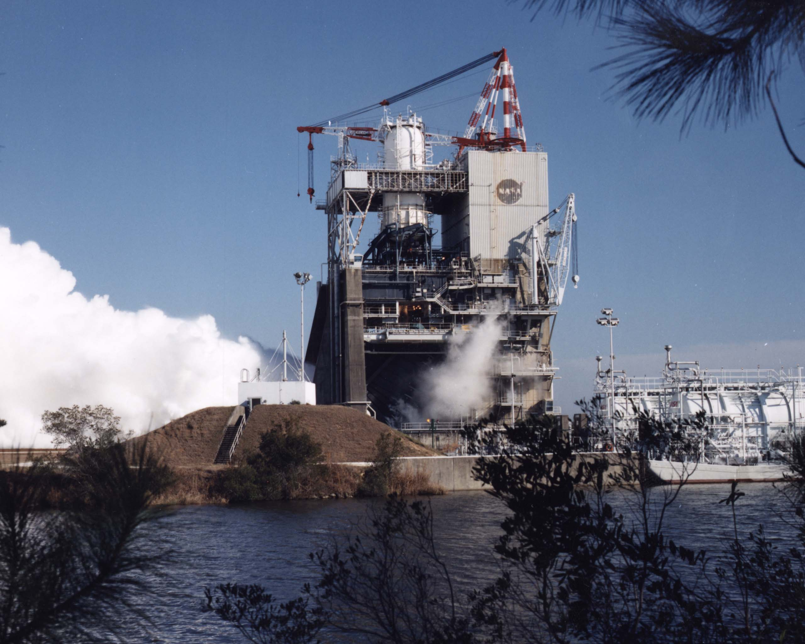 A cloud of hot steam boils out of the flame deflector at the A-1 test stand during a test firing of a Space Shuttle Main Engine in 1988 during the NASA Return to Flight program.